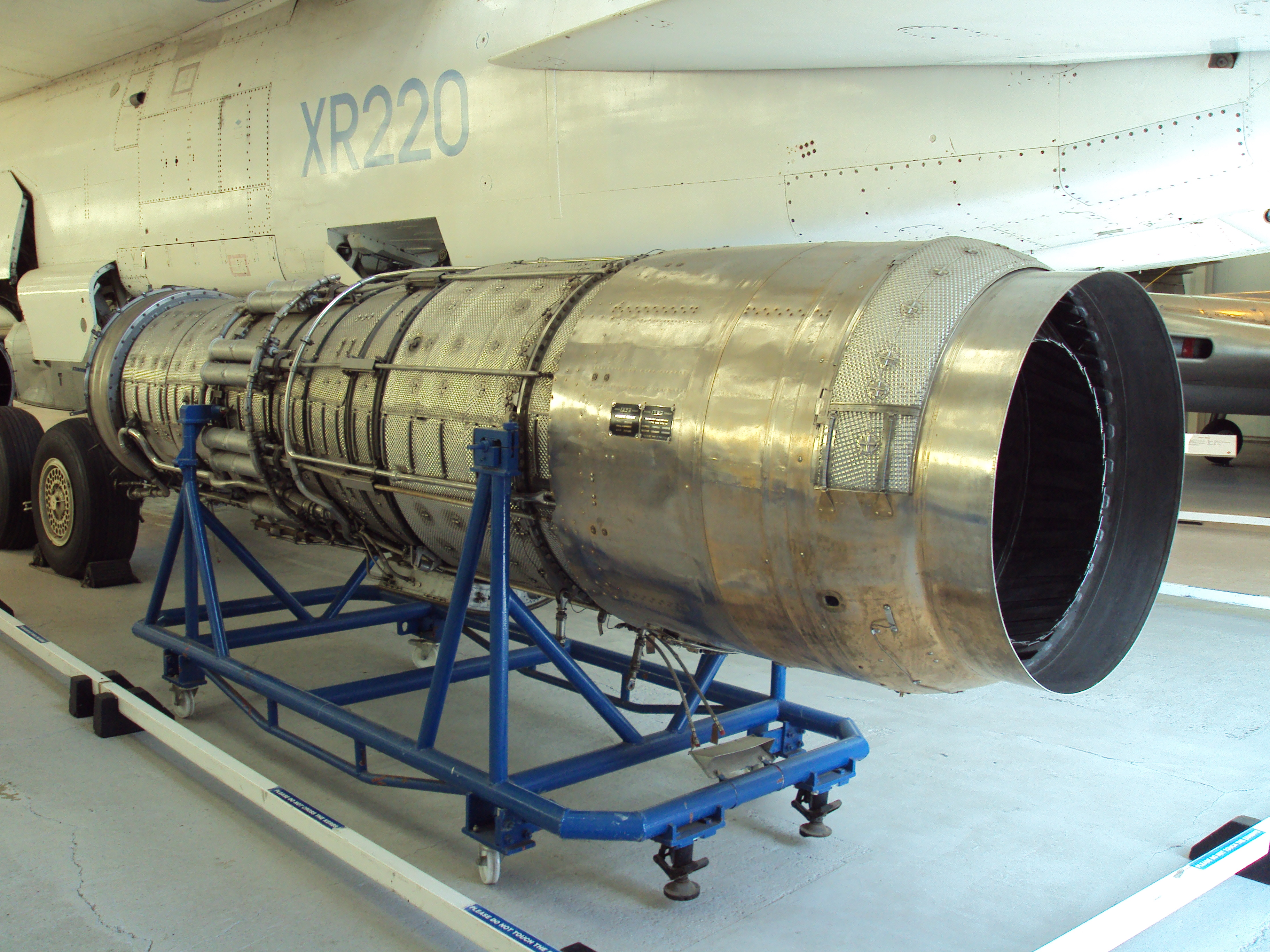 Photo of jet engine taken at the RAF Museum Cosford, Shropshire, England.